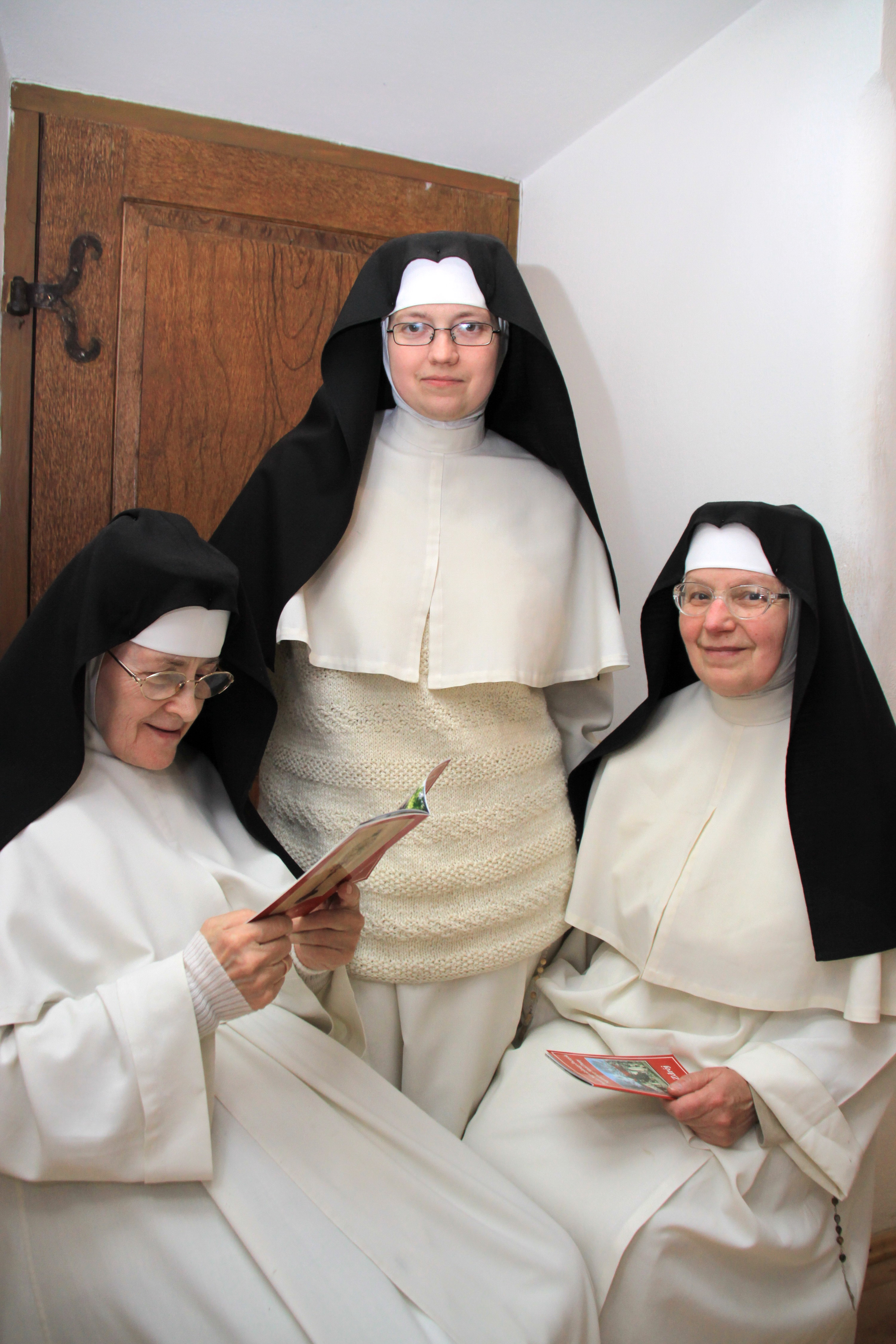 Norbertine Sisters of the Order of cloistered in Imbramowice.